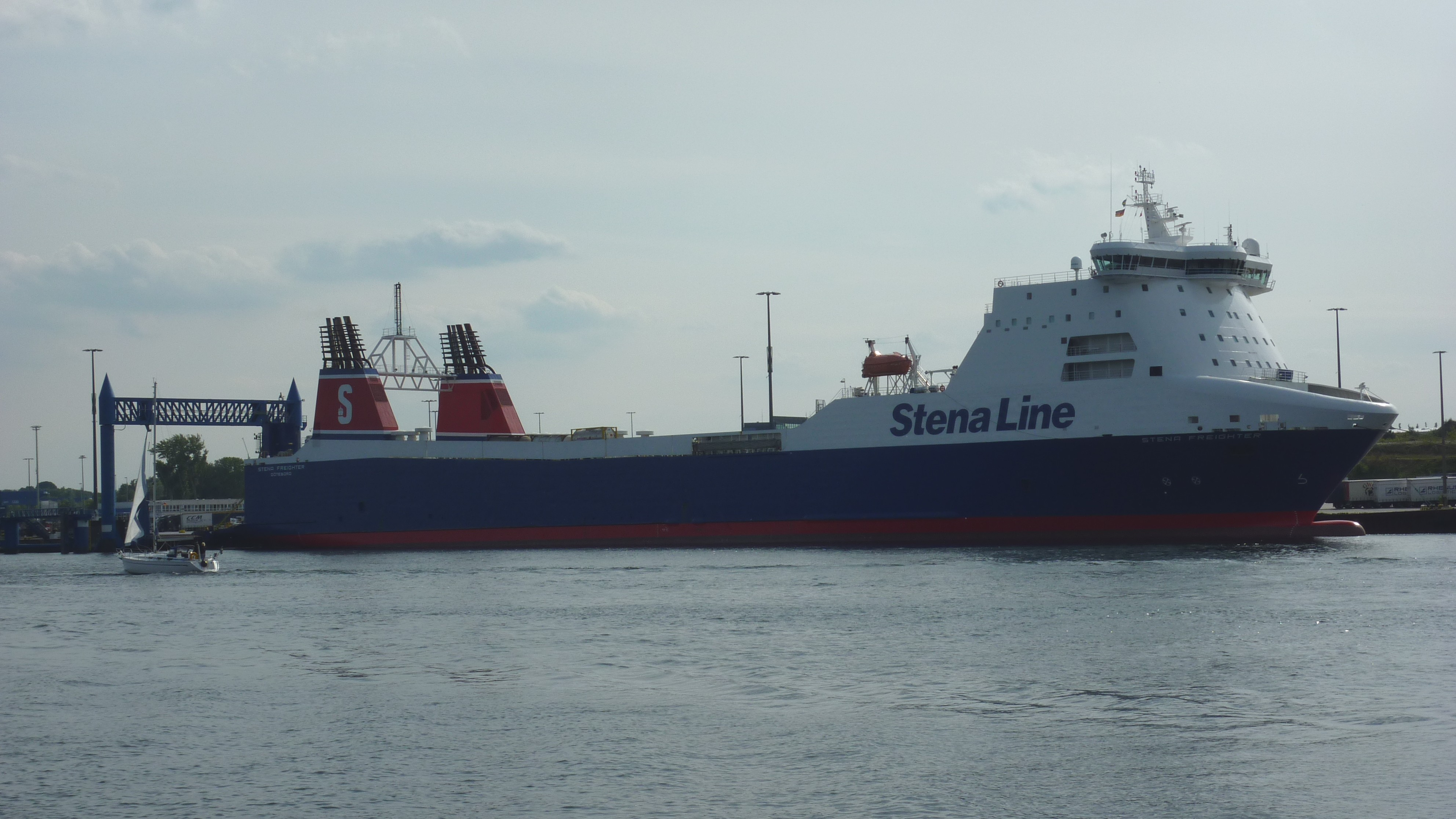 MS Stena Freighter in Travemünde